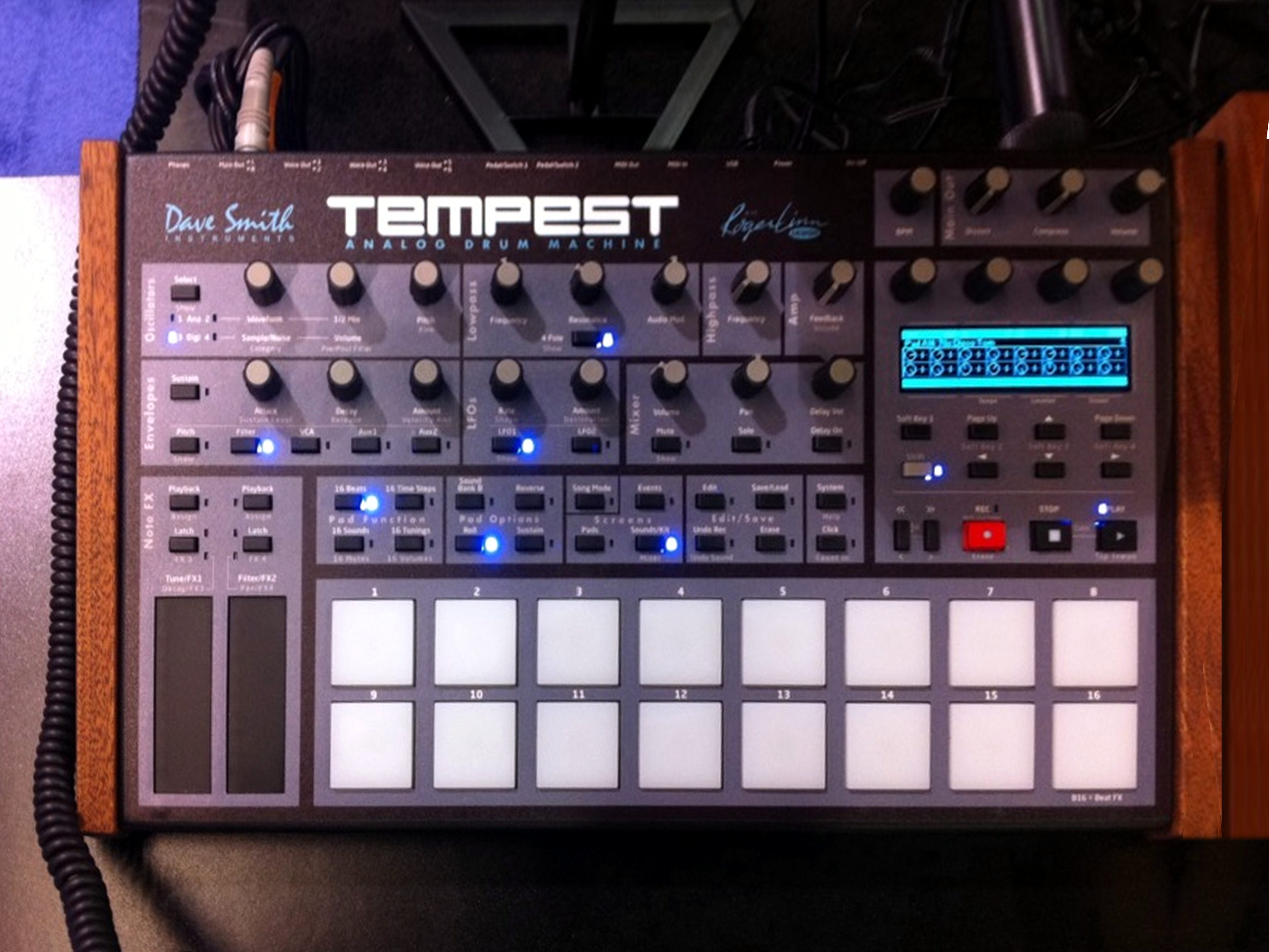 Dave Smith Instruments & Roger Linn Design Tempest Analog drum machine co-developed by Dave Smith and Roger Linn